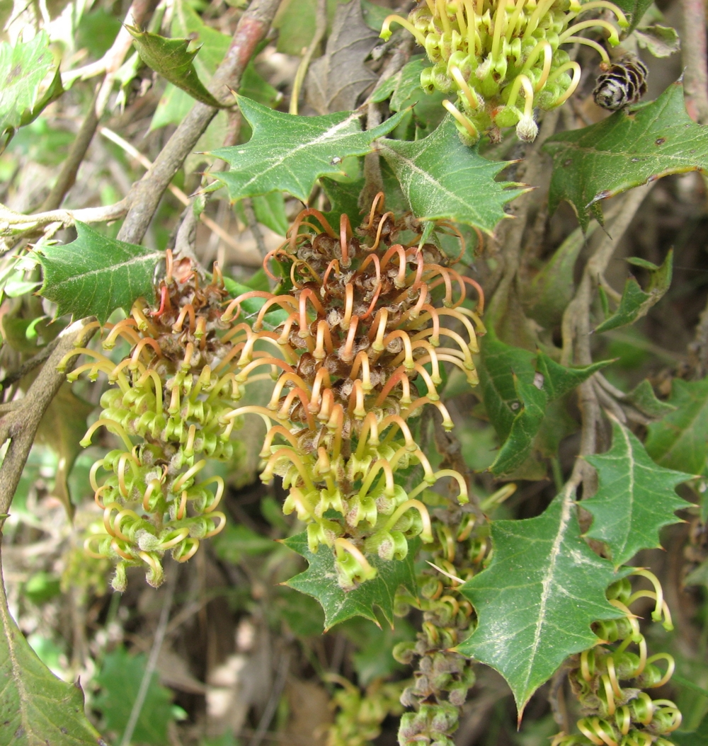 Grevillea bedggoodiana, Enfield State Park, Victoria, Australia